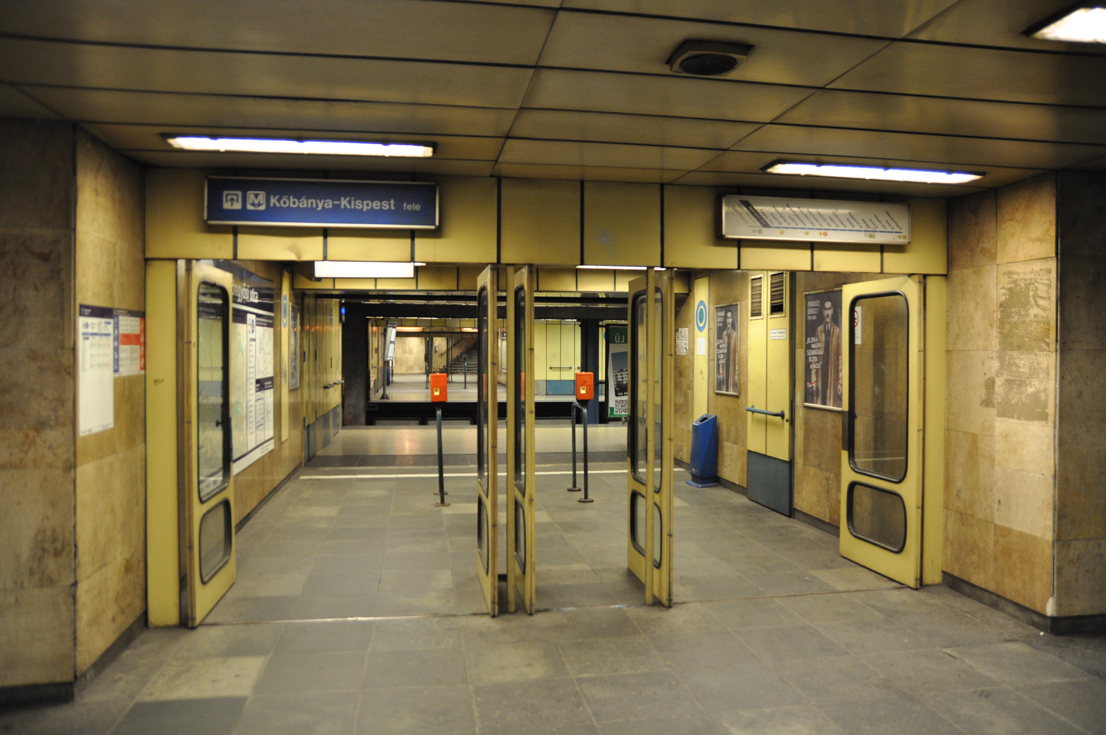 Budapest, metró 3, Gyöngyösi utca